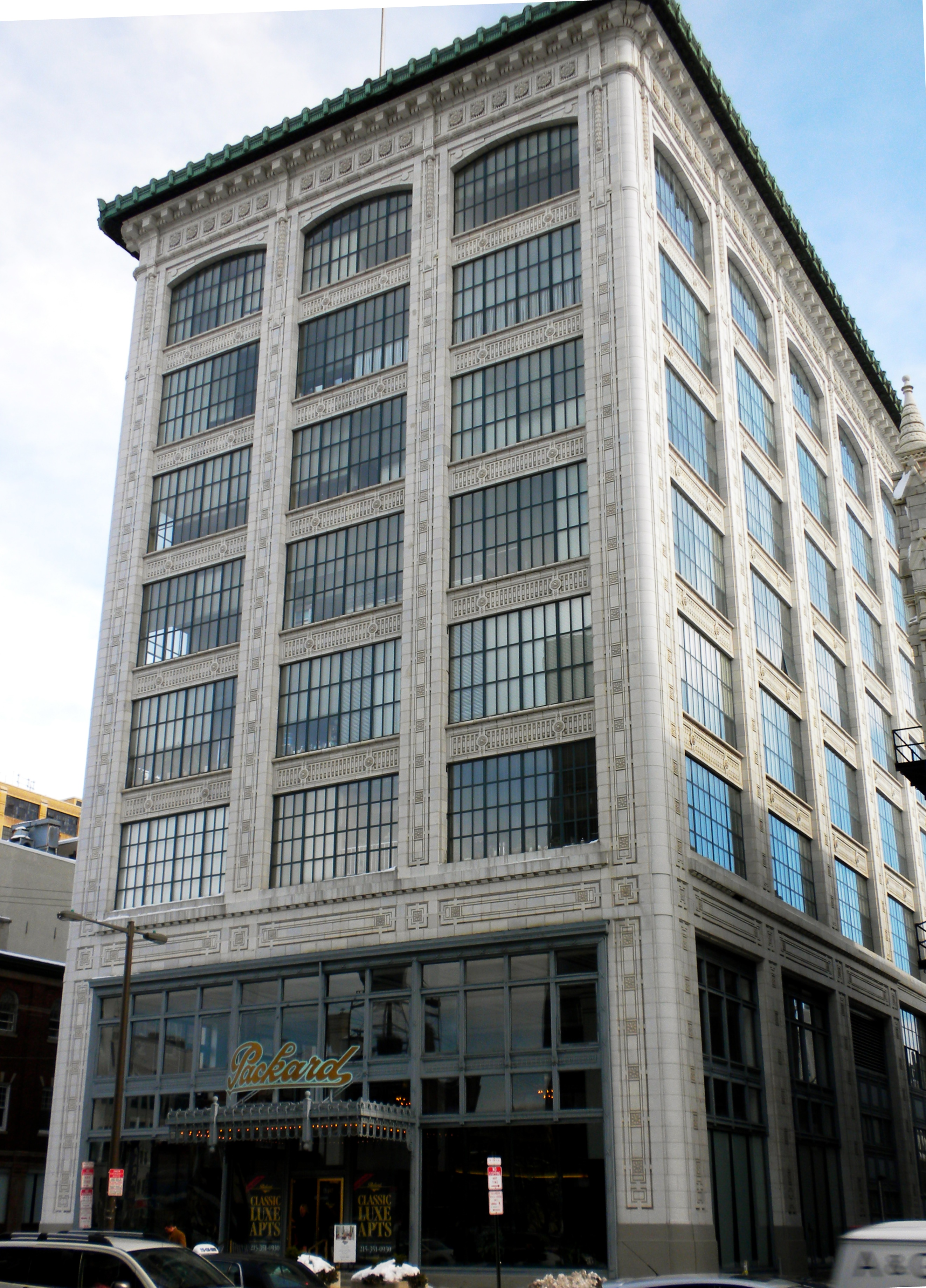 Packard Motor Corporation Building, on NRHP since February 8, 1980. 317–321 North Broad Street, just north of the Vine St. Expressway in Callowhill neighborhood of Center City, Philadelphia, PA